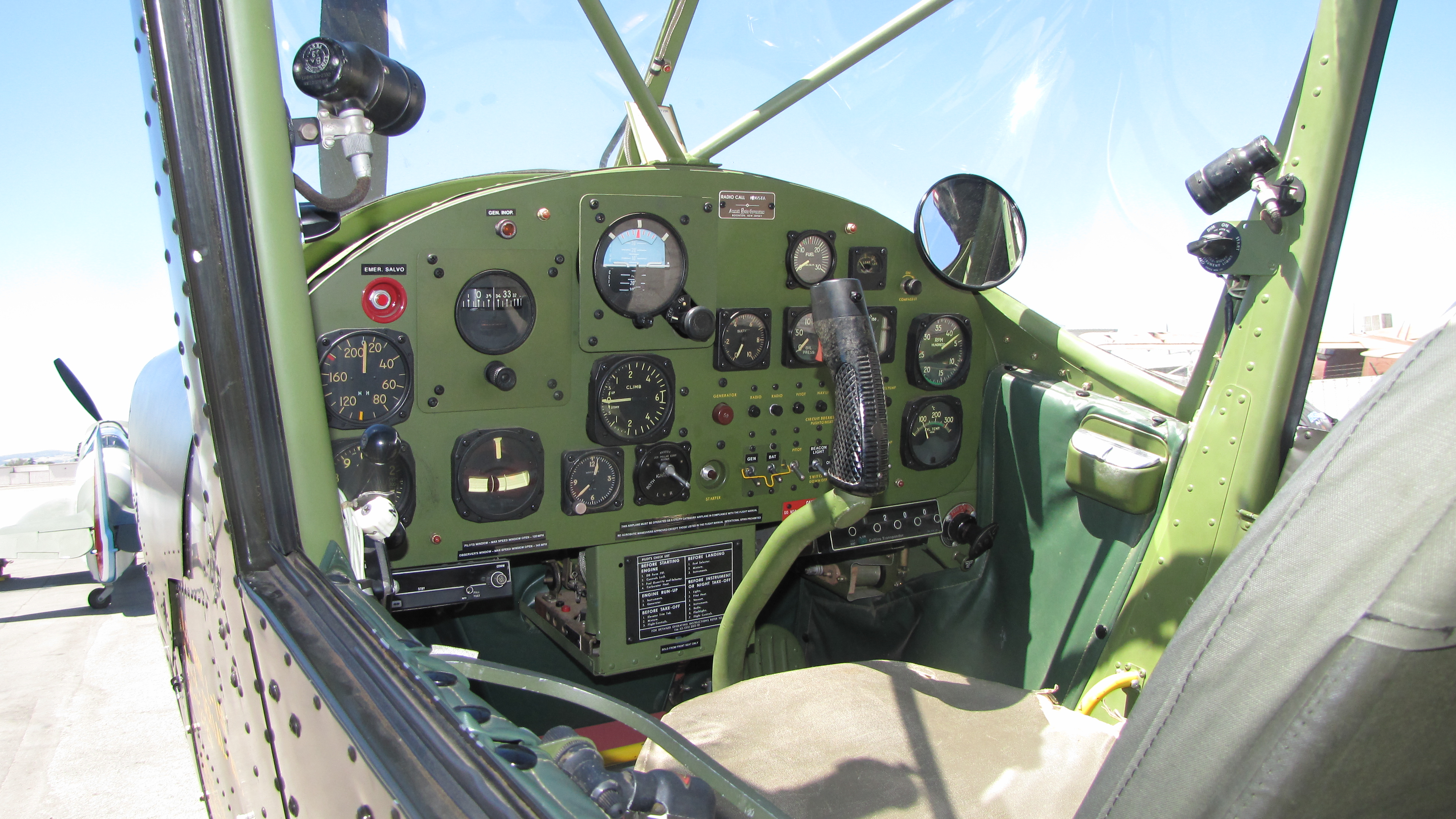 Control panel of a Cessna O-1E/L-19 Bird Dog. Location: Planes of Fame Air Museum, Chino, CA